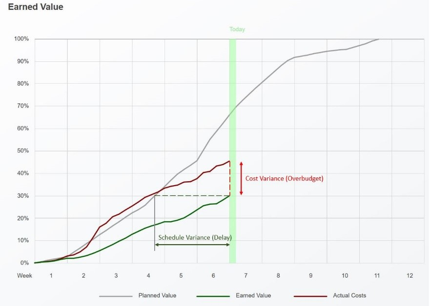 Earned Value chart shows Planned Value, Earned Value, Actual Cost, and their variance in percent. The approach is used in project management simulation SimulTrain(R).